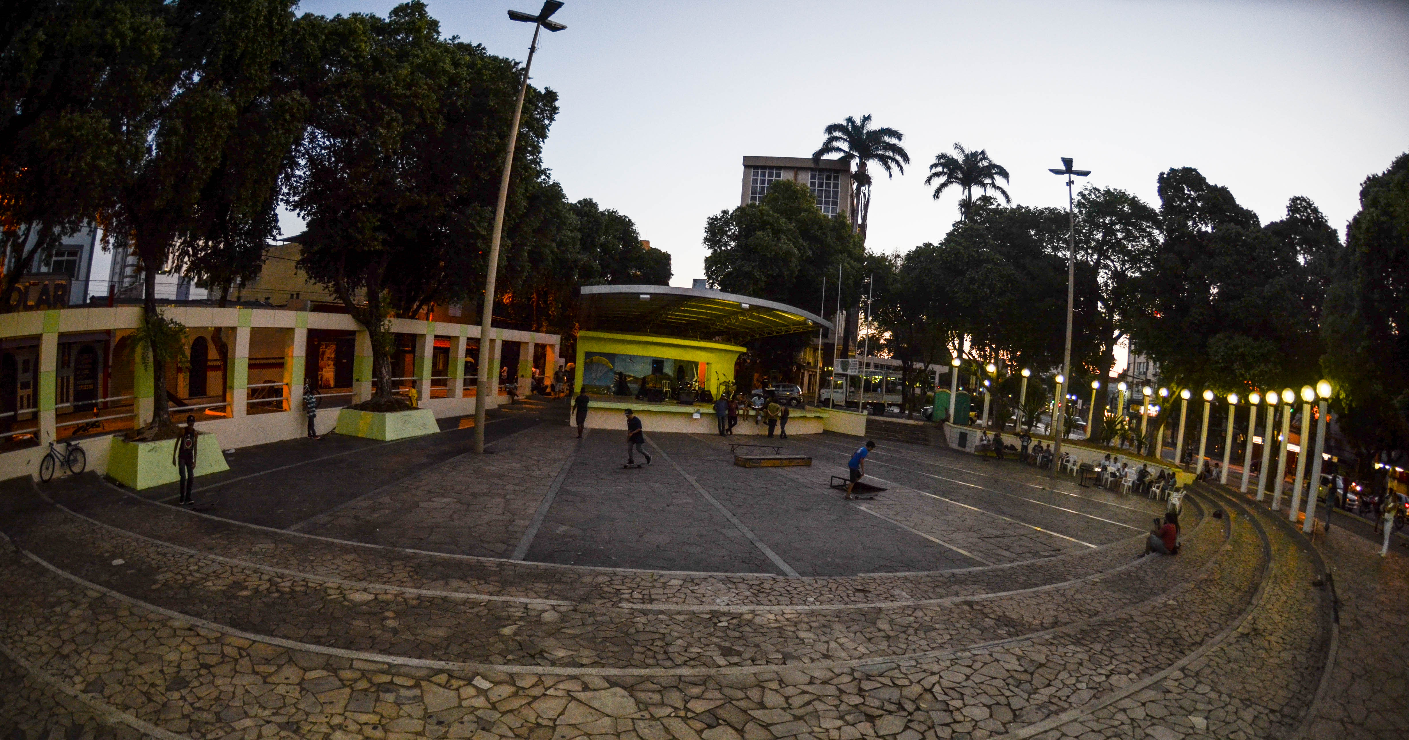 Partial view of the Pioneiros square, in Governador Valadares, Minas Gerais, Brazil.